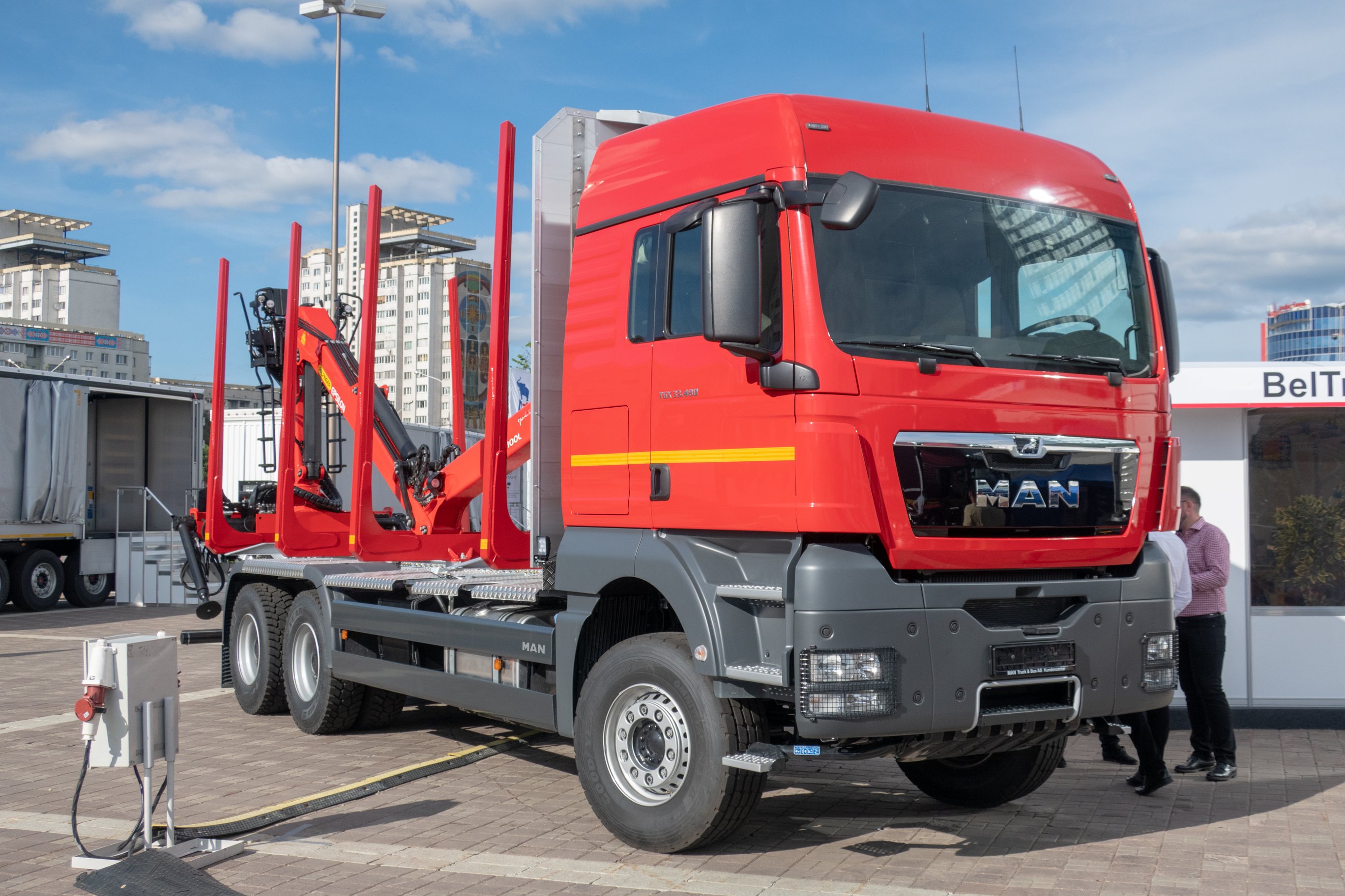 BAMAP-2019 exhibition (Minsk, Belarus)